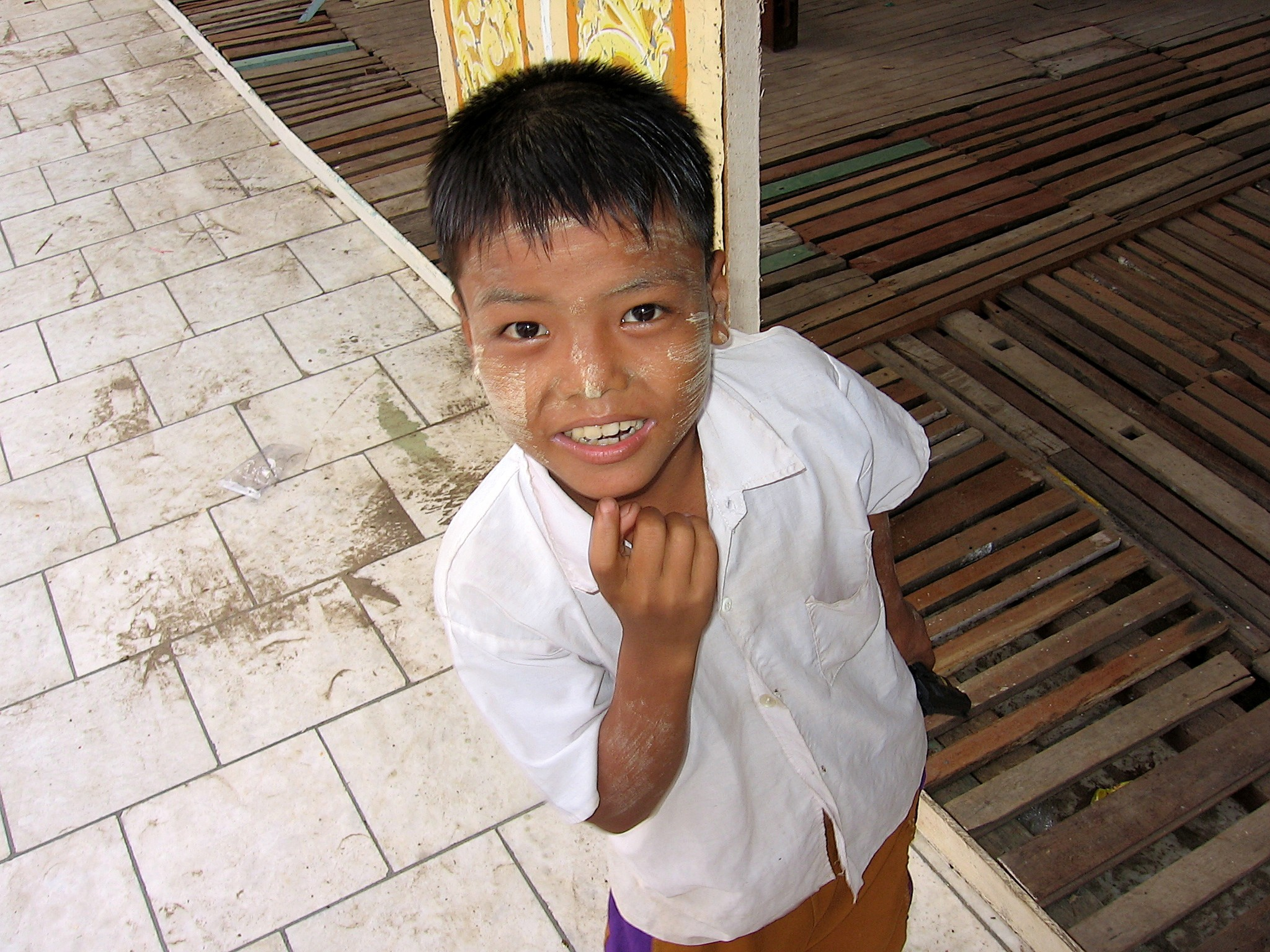 Child with thanakha (or thanaka) make up in Monywa, Myanmar.